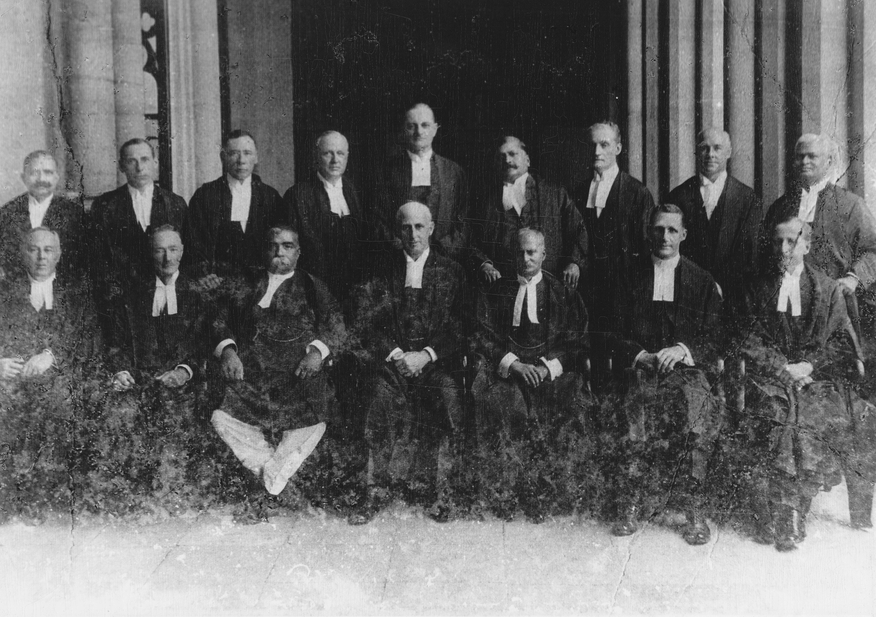 Ashutosh Mukherjee - First Row, Third From Left. Nalini Ranjan Chatterjee - First Row, Third From Right